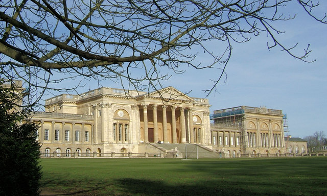 Stowe House (Southern aspect) Buckinghamshire